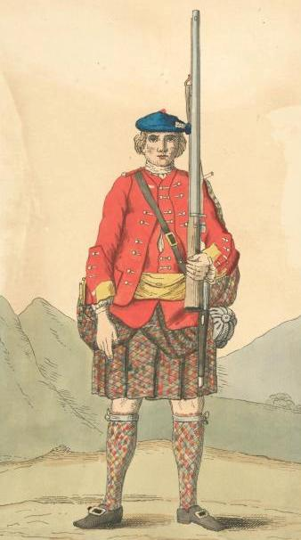 Soldier of the 42nd regiment (1742)